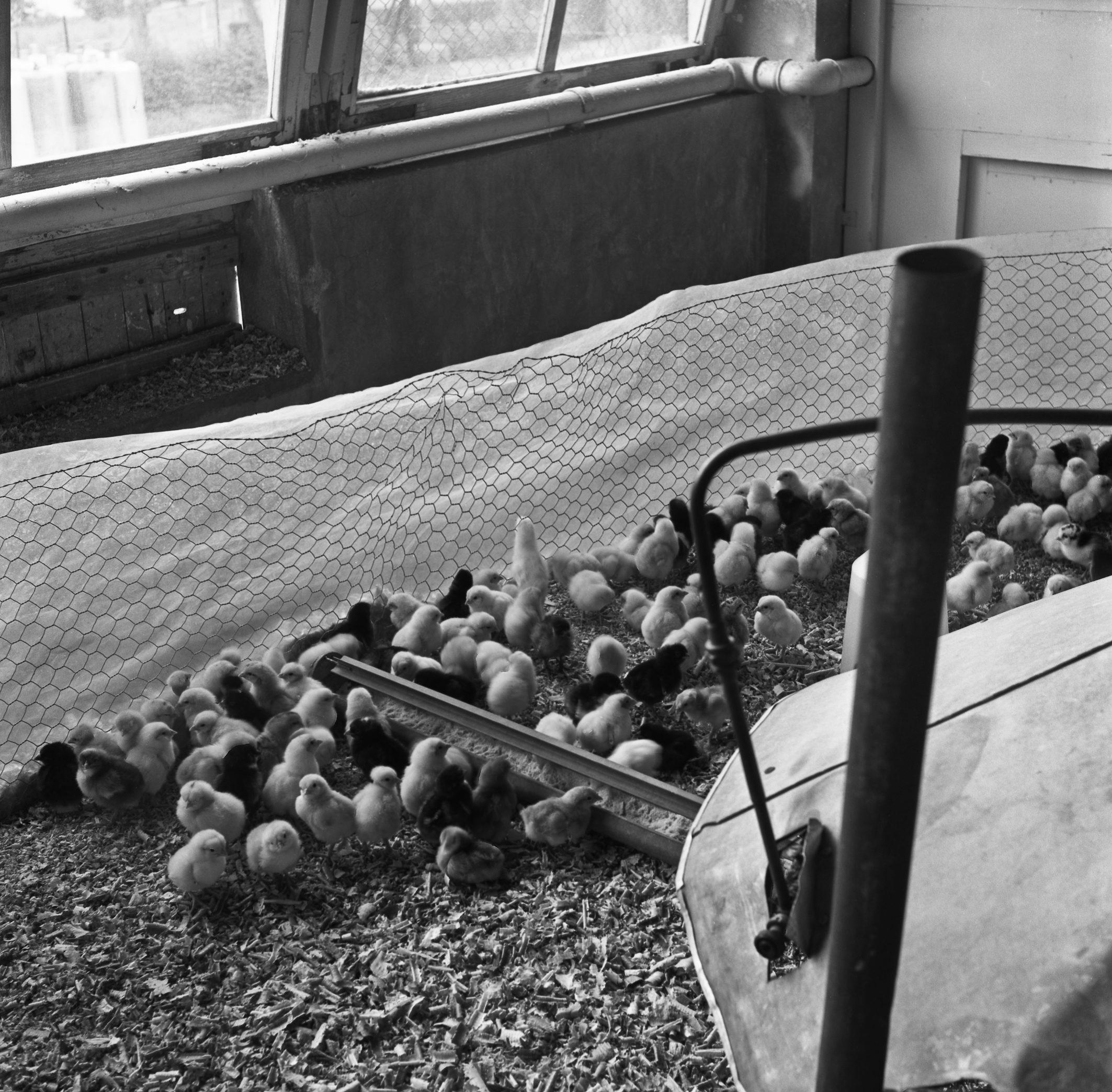 Station Avicole au CNRZ